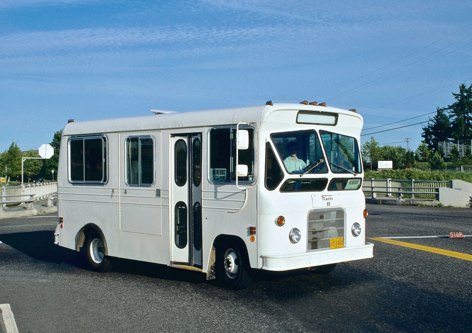 TriMet minibus No. 69, a "Flxette" model (manufactured by the Flxible Company), in service on a short-lived, unnumbered TriMet route between the Cedar Hills Transit Center and the Oregon Graduate Center, via Tanasbourne Mall. The minibus is turning from the Highway 217 frontage road onto SW Wilshire Street, on the approach to Cedar Hills Transit Center. (The Oregon Graduate Center was later renamed Oregon Graduate Institute, the Tanasbourne Mall closed in 1993, and the Cedar Hills Transit Center was replaced by the Sunset TC in 1998.)